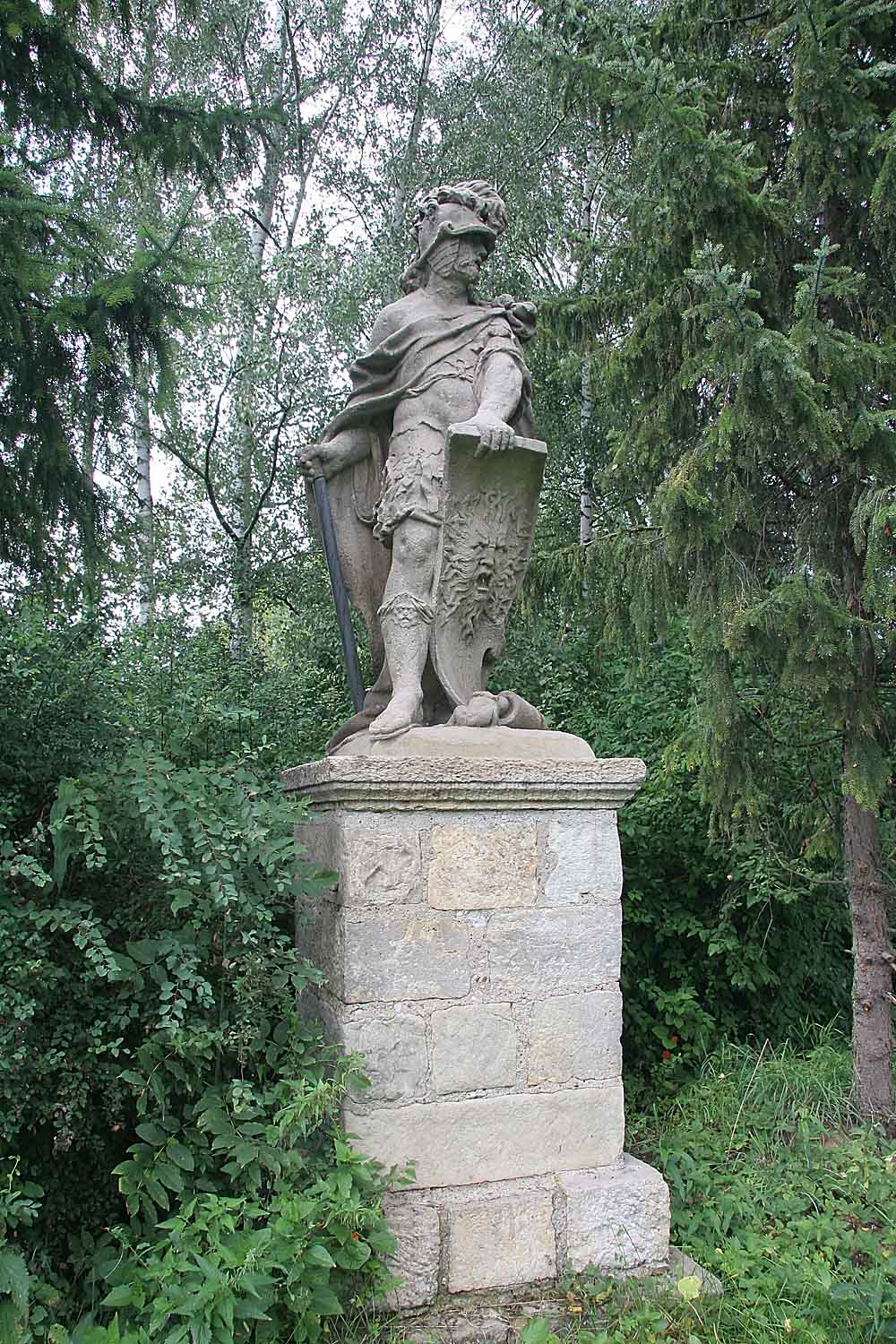 Statue of Perseus in Dohalice, Hradec Králové District, Czech Republic Autor:Prazak Date: 26. 8. 2006